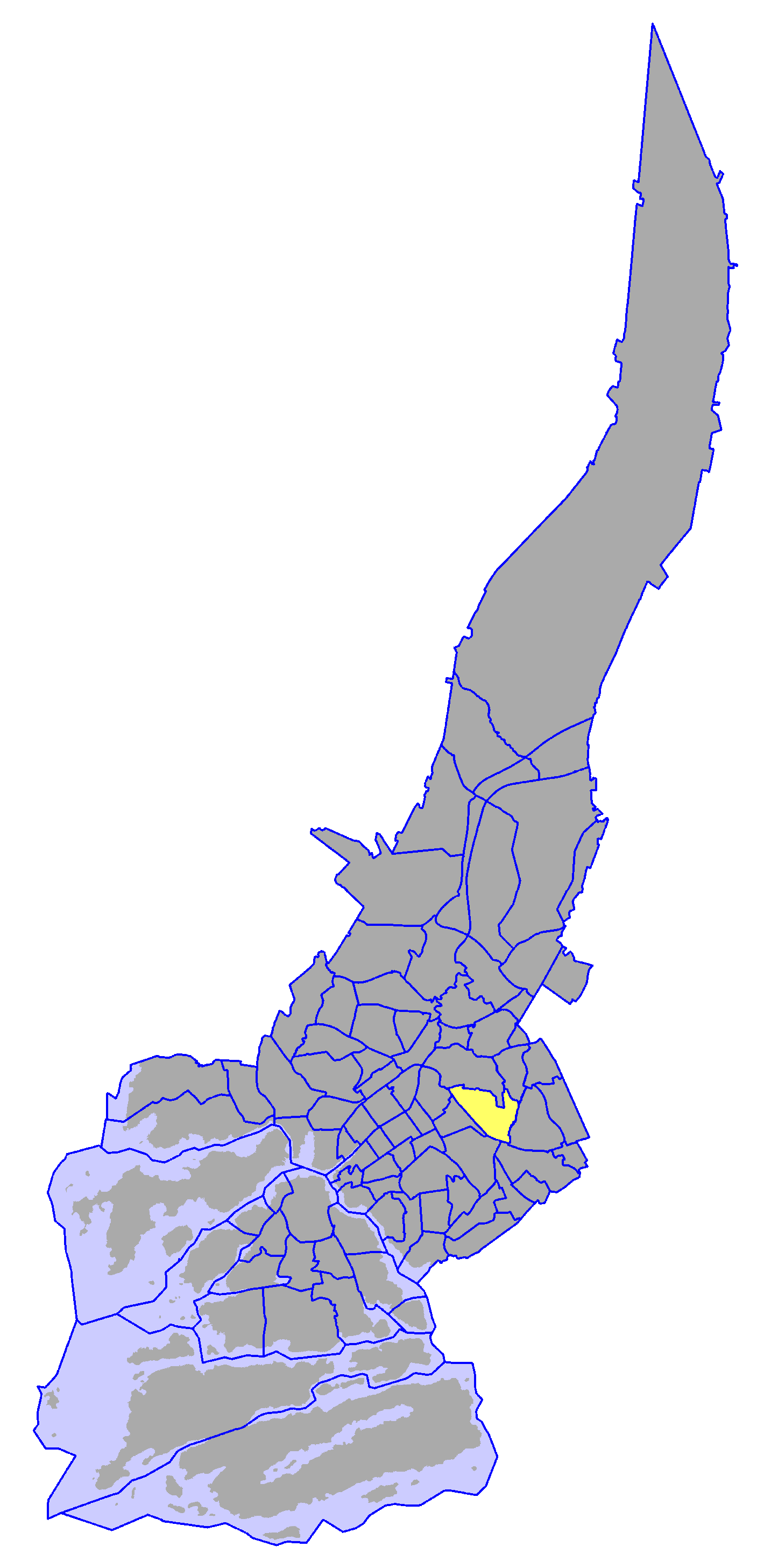 District of Itäharju, in Turku